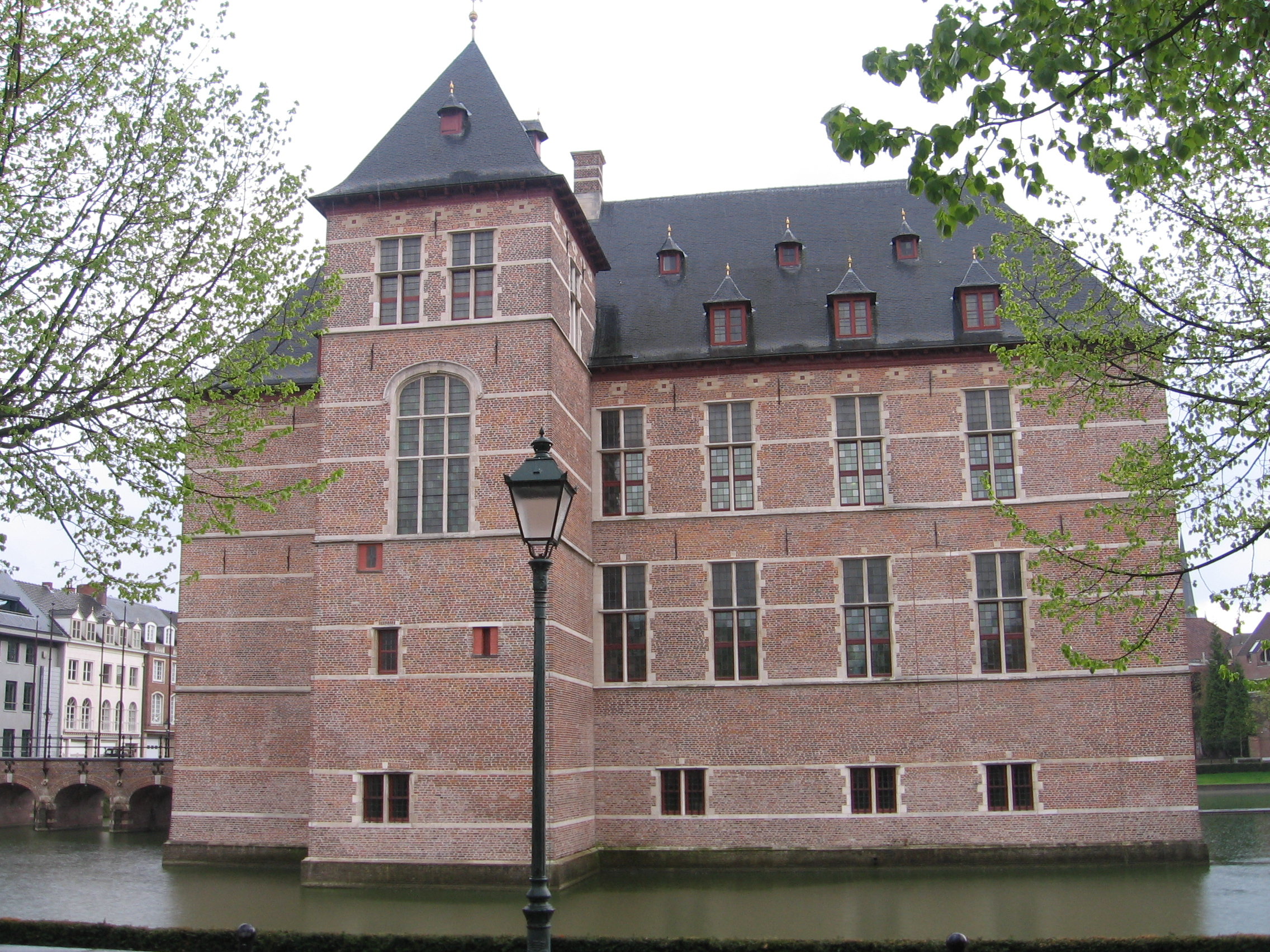 Turnhout, 29 april 2006